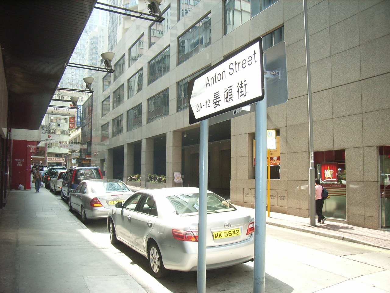 晏頓道 (Anton Street), Wanchai, Hong Kong. (A1 Wong East).